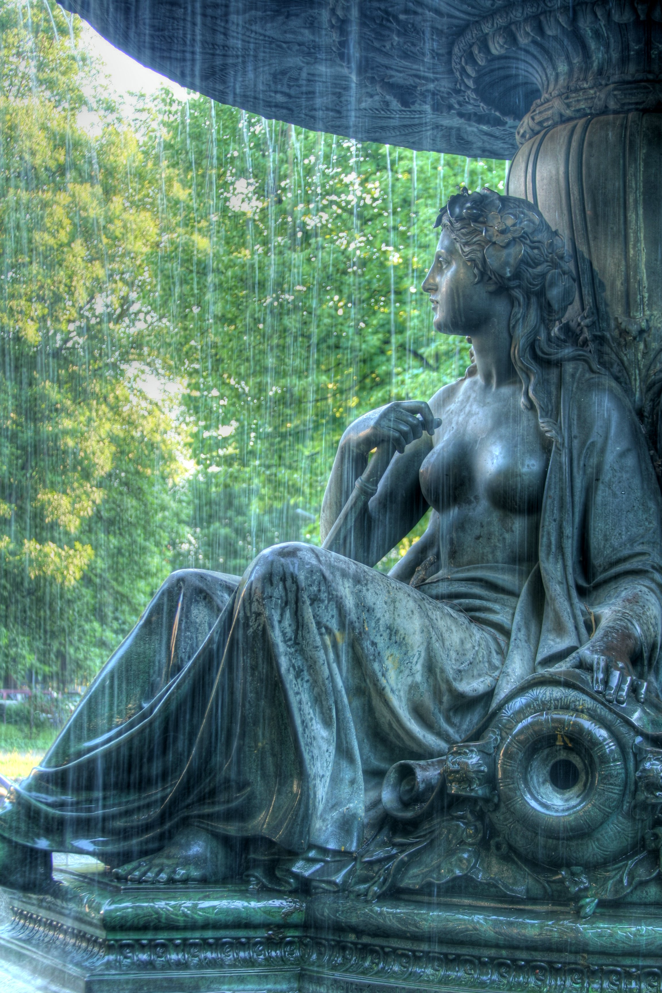 This nice lady represents the river "Elbe" as one of 4 figures on the Wrangel fountain in Berlin Kreuzberg. The fountain was designed 1871 by Hugo Hagen, built 1877 and moved to the recent location 1902. Look here at another picture of the same fountain. This is a careful HDR attempt from 3 single shots. See where the photo was taken at maps.yuan.cc/.